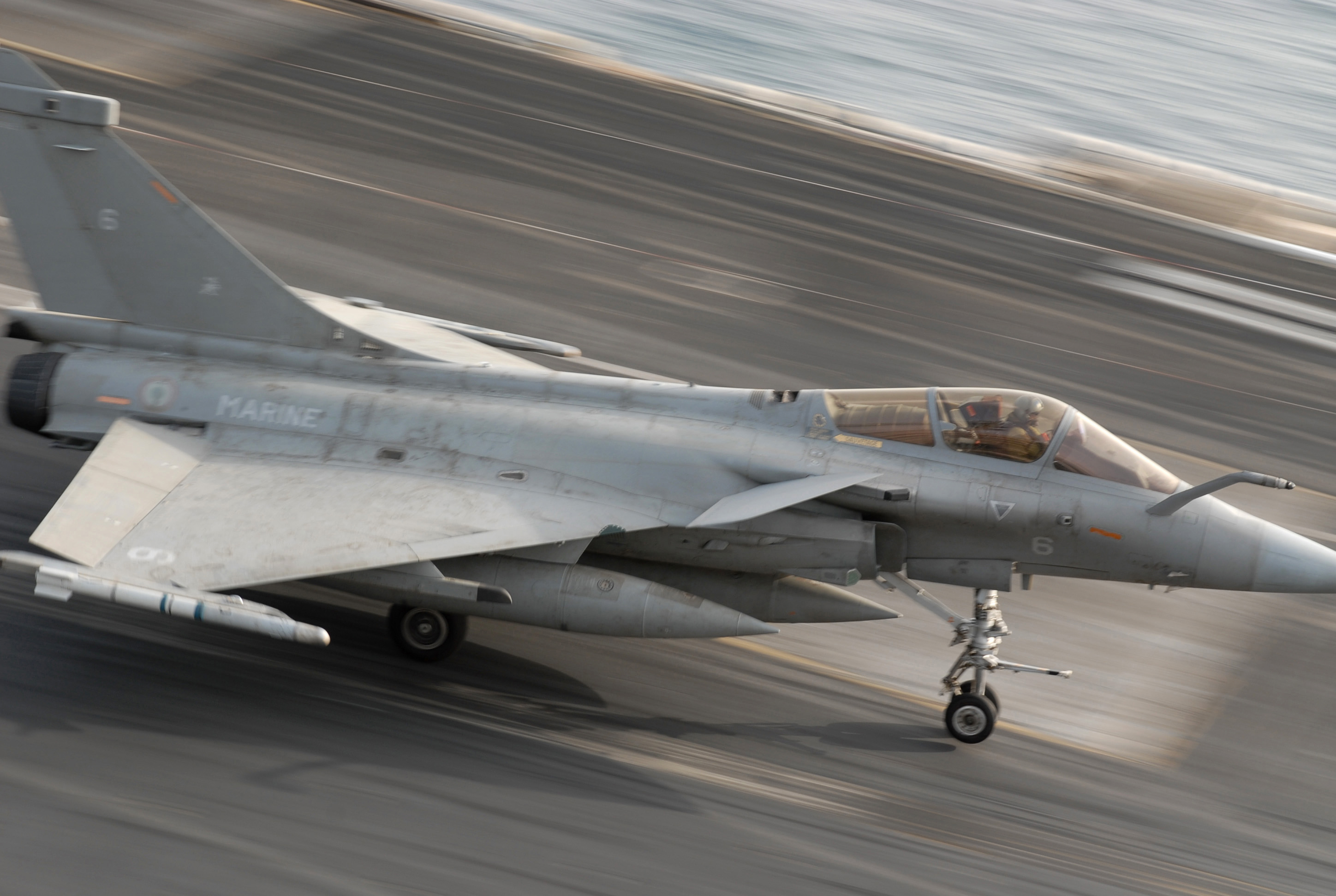 060427-N-2959L-196 Arabian Gulf - Aircraft from the French aircraft carrier Charles De Gaulle (R-91) executes touch-and-gos on the flight deck of USS Ronald Reagan (CVN 76).